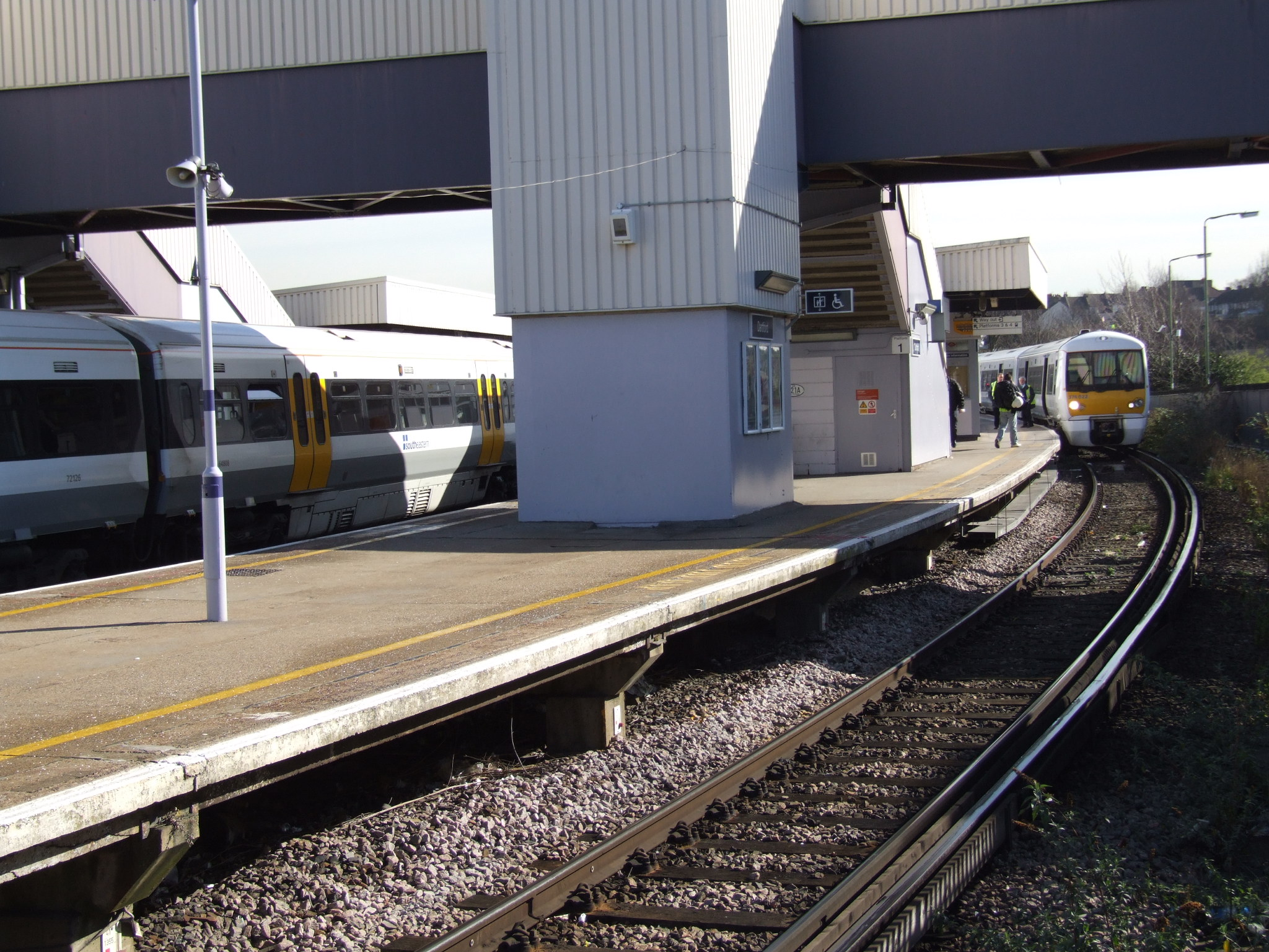 Footbridge.Two Networkers in Dartford railway station British Rail Class 466,British Rail Class 376 376022.